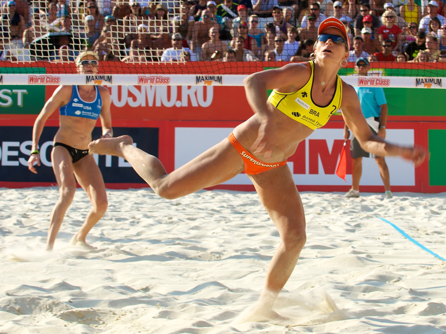 Grand Slam Moscow 2011